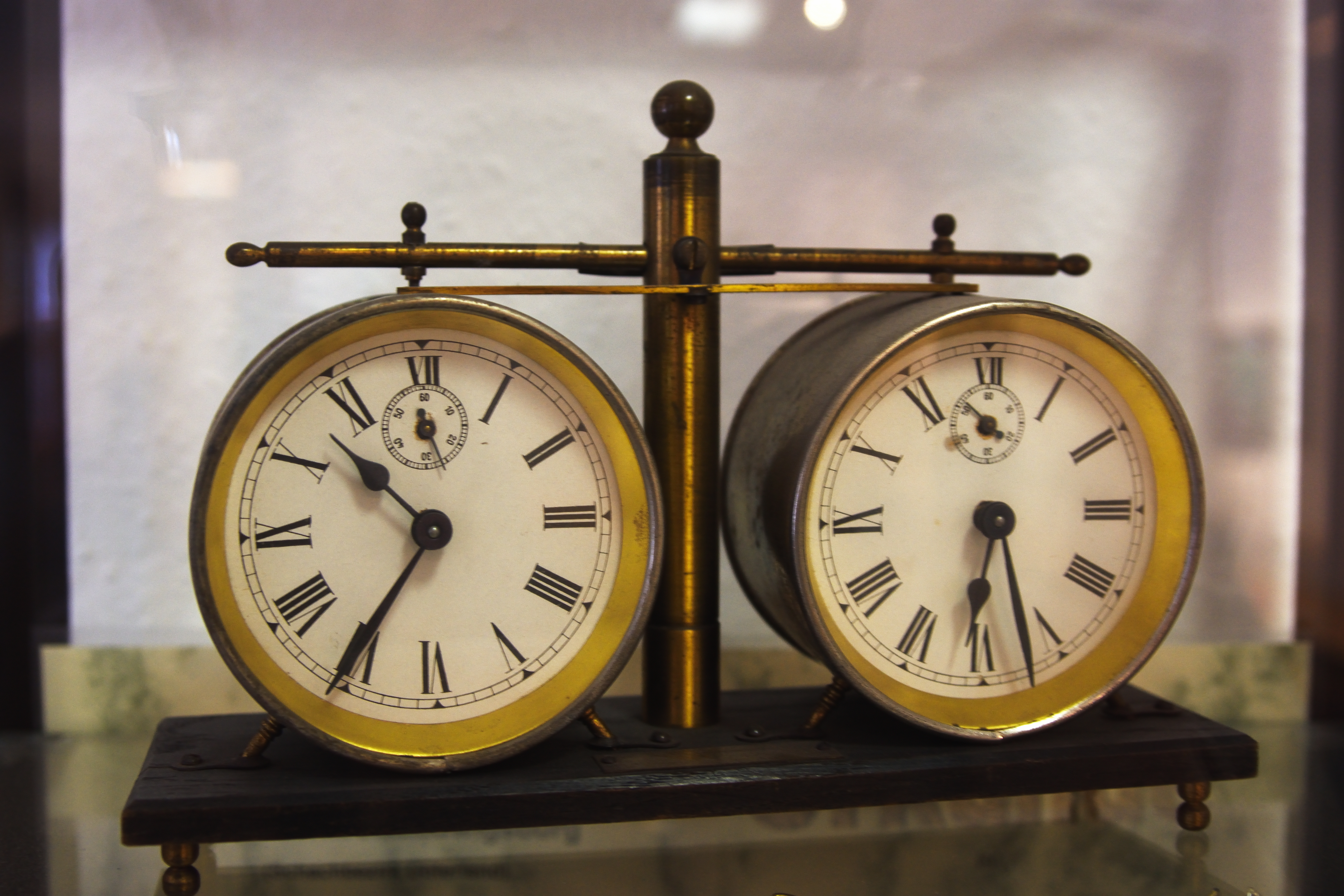 Historical chess clock. Schachgemeinschaft Ludwigsburg von 1919 e. V., photographed with kind permission.